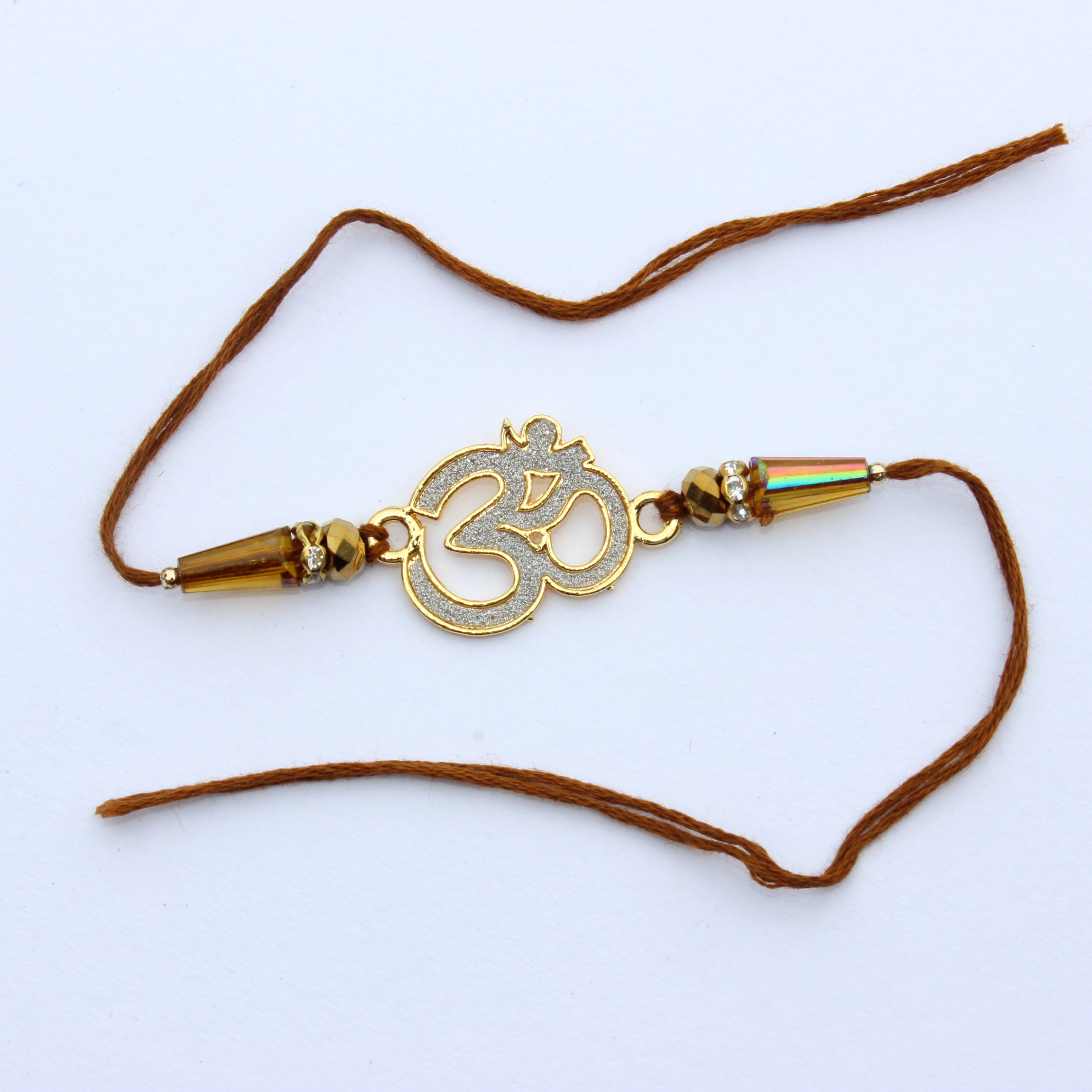 Rakhi or Raksha Bandhan in many parts of India and Nepal, is a Hindu religious festival.Raksha bandhan means "bond of protection" and the holy thread hand band represents for that . It is observed on the full moon day of the Hindu luni-solar calendar month of Shravana, which typically falls in Gregorian calendar month of August.